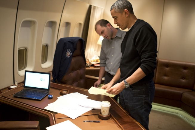 On board Air Force One, President of the United States Barack Obama watches Deputy National Security Advisor Ben Rhodes editing the speech that the President will deliver at the Nelson Mandela memorial service in South Africa.